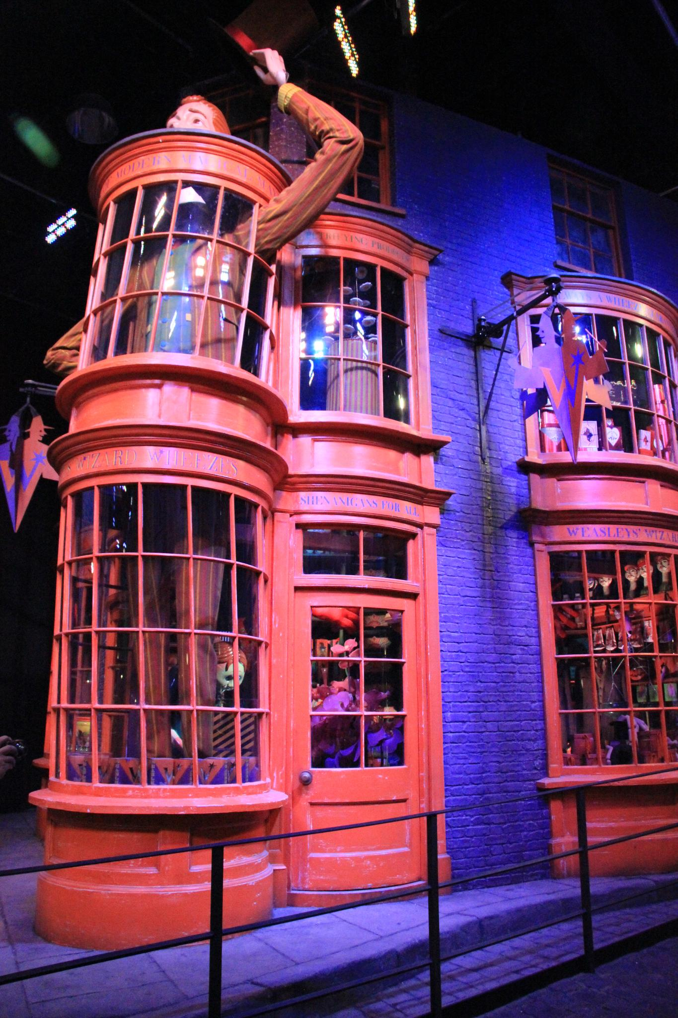 Warner Bros. Studio Tour London: The Making of Harry Potter.